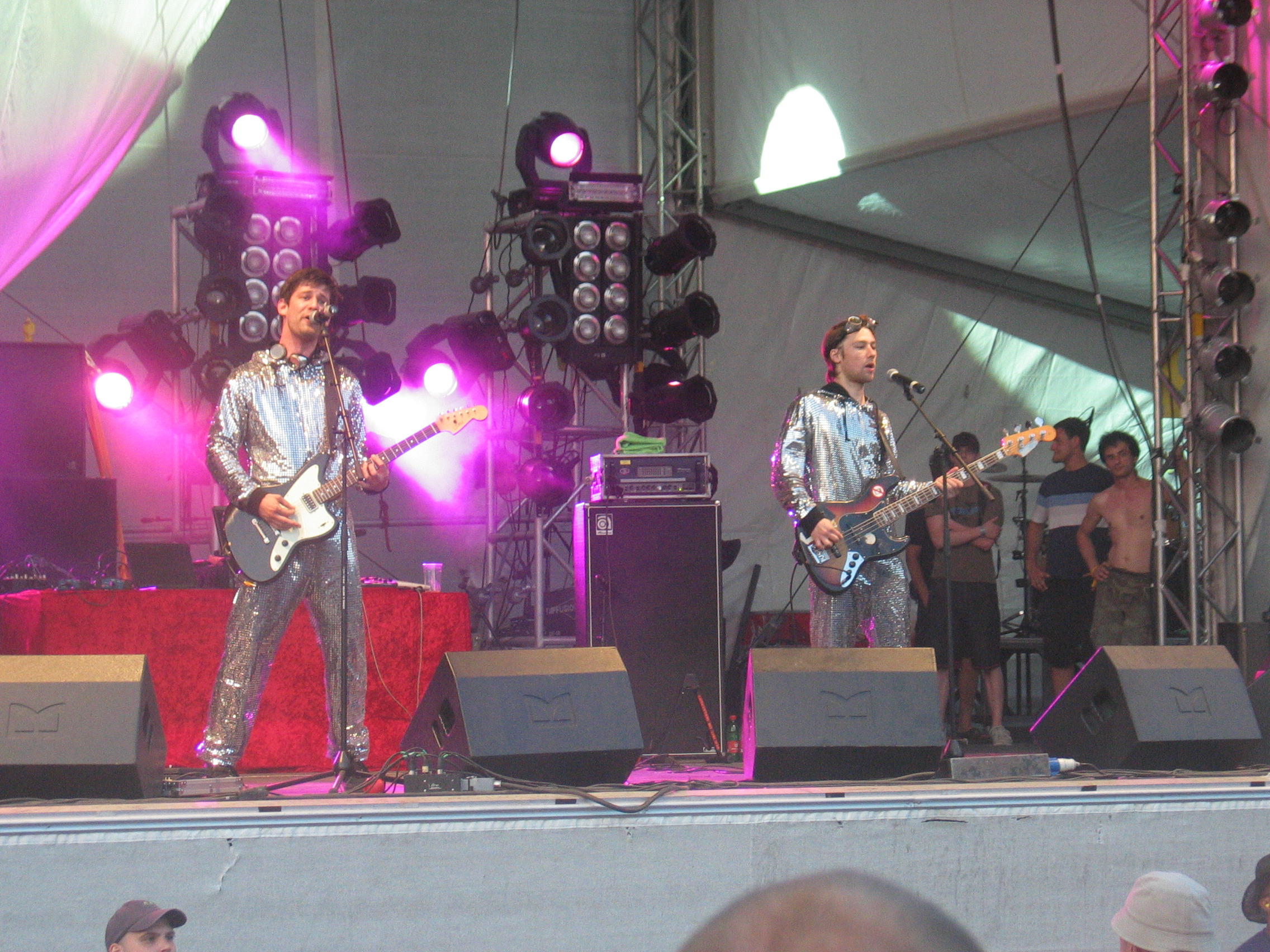 Mediengruppe Telekommander, Austrian-German electro-punk/hip-hop band. Performing at the Donauinselfest 2006 festival on the Danube Island in Vienna, Austria on June 25th, 2006.